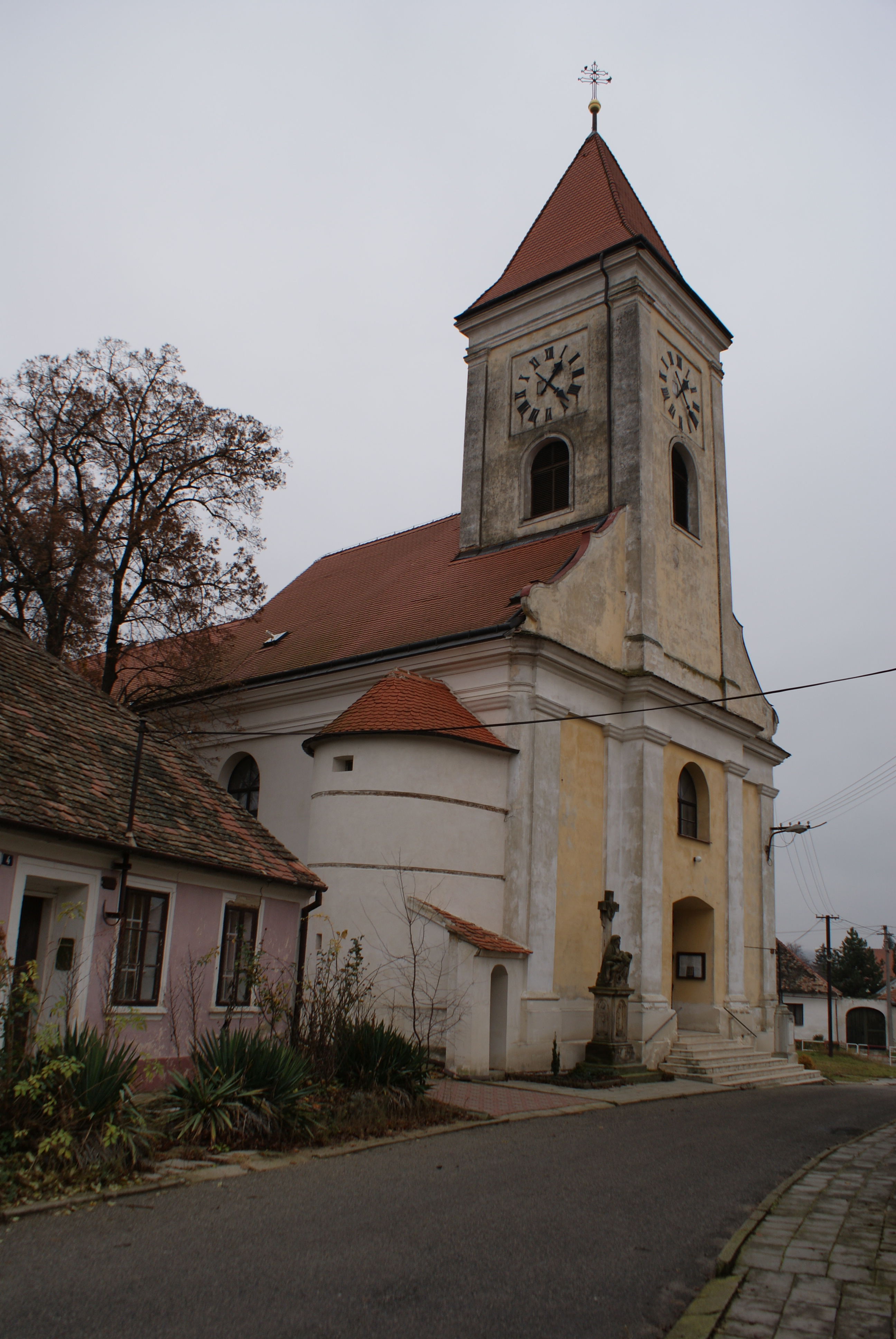 Dolní Dunajovice, Moravia, church of St Giles